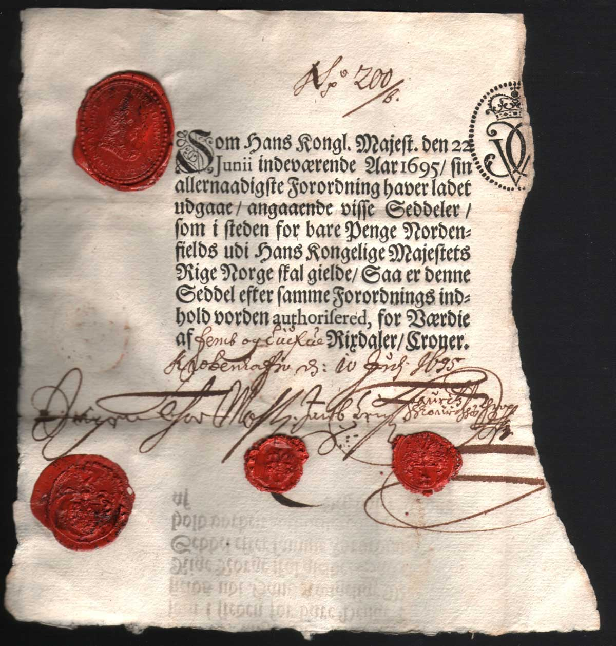 25 Rixdaler Croner en provenance de Norvège et datés de 1695. Celui ci est un des premiers billets émis en Europe